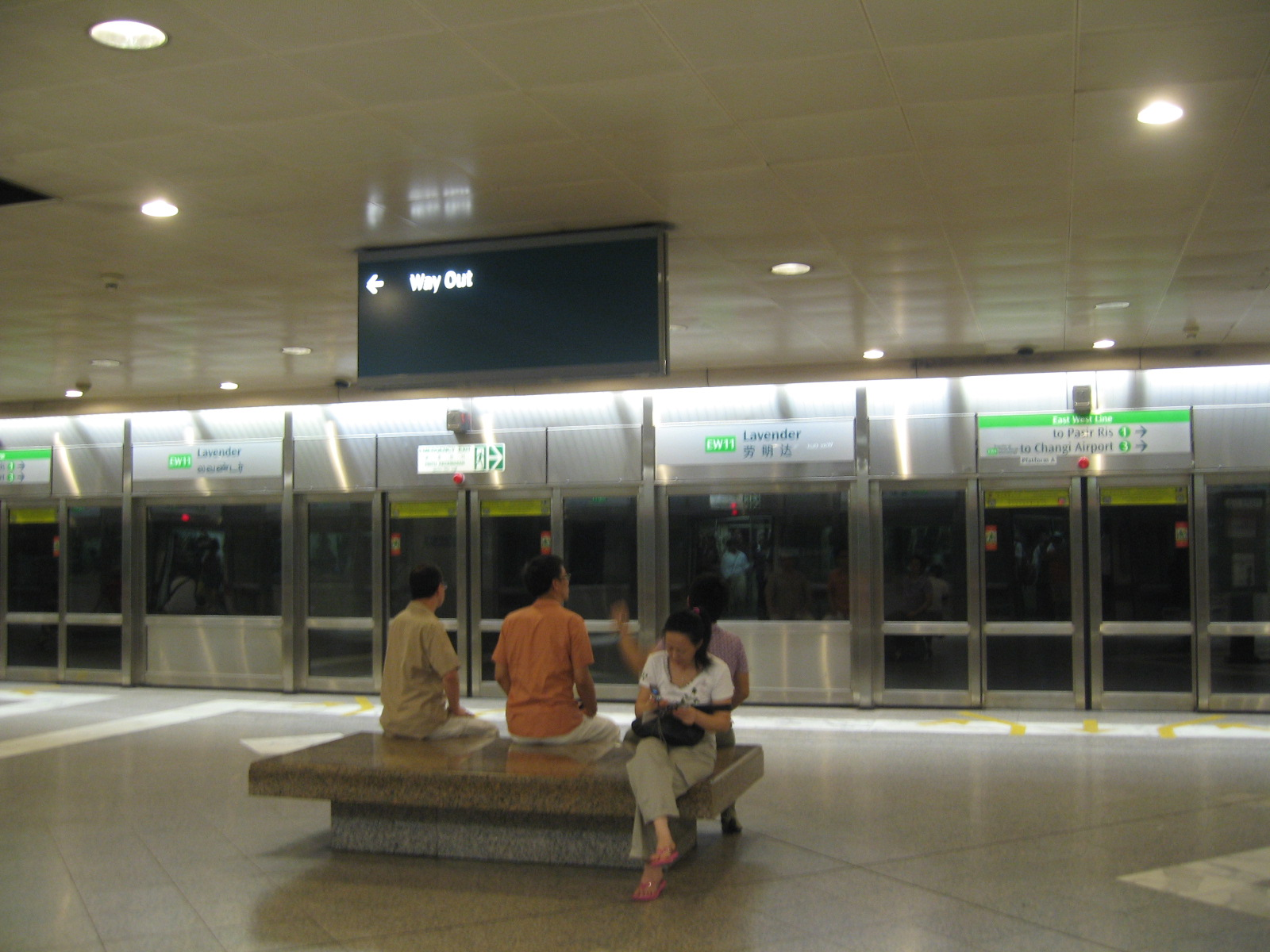 Lavender MRT Station.